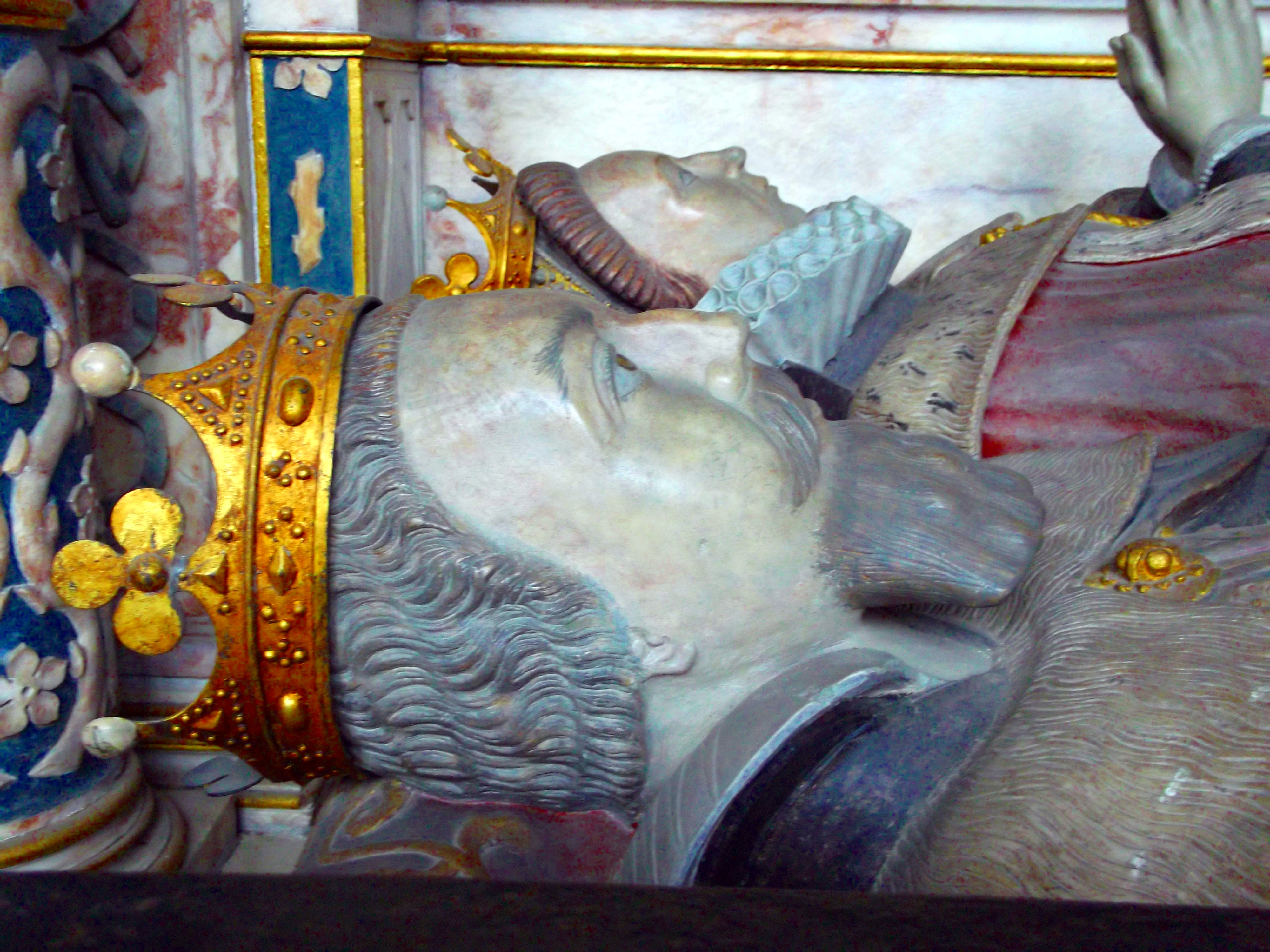 Effigies of Robert Dudley and Lettice Knollys on their tomb. Collegiate Church of St Mary, Warwick.